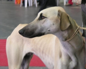 OPHELIO Schuru-esch-Schams